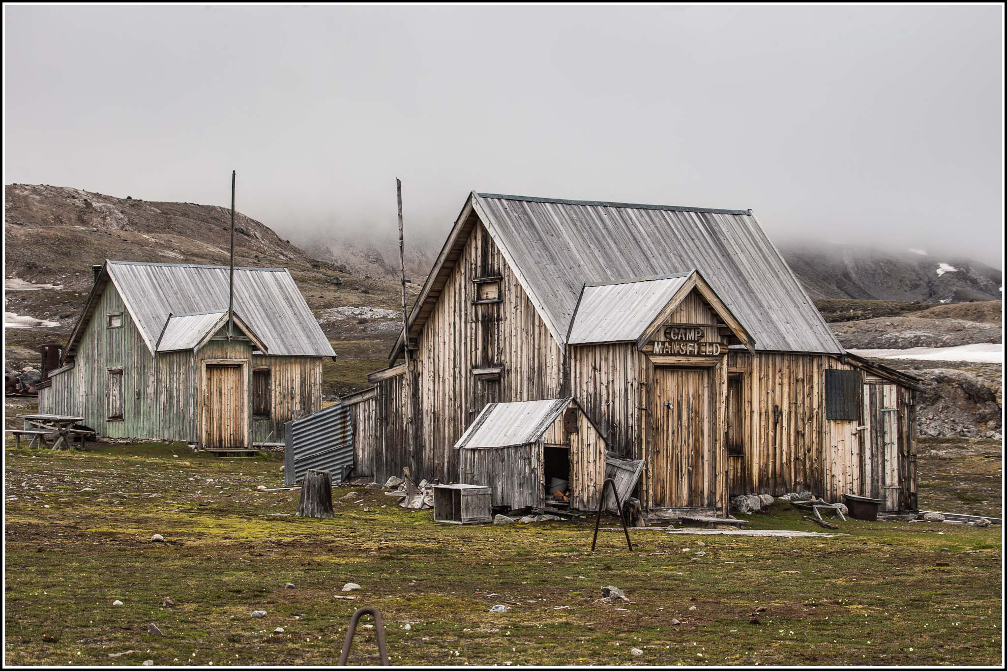 A selection of images from a recent trip to Svalbard.